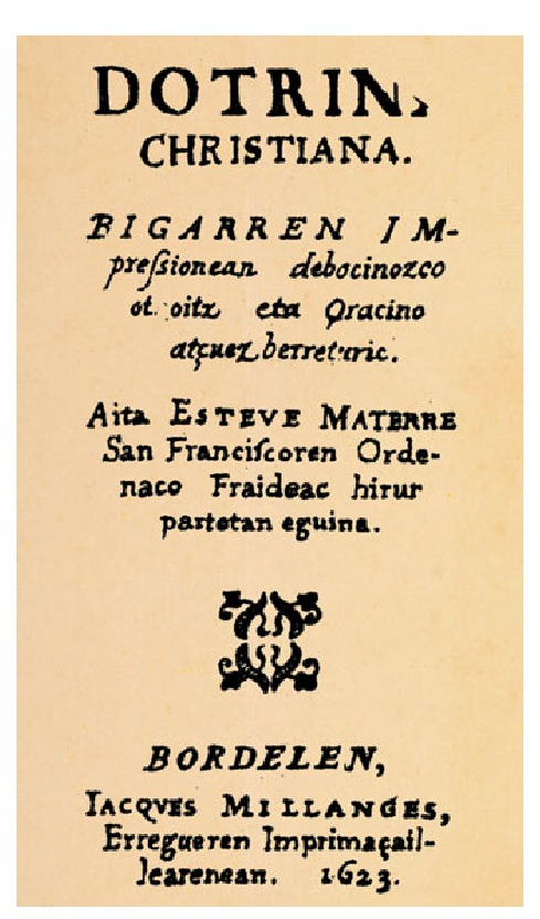 Cover of the book Dotrina christiana (second edition, 1623), of Esteve Materre.